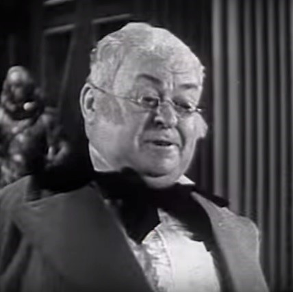 Harry Holman in Oliver Twist - cropped screenshot